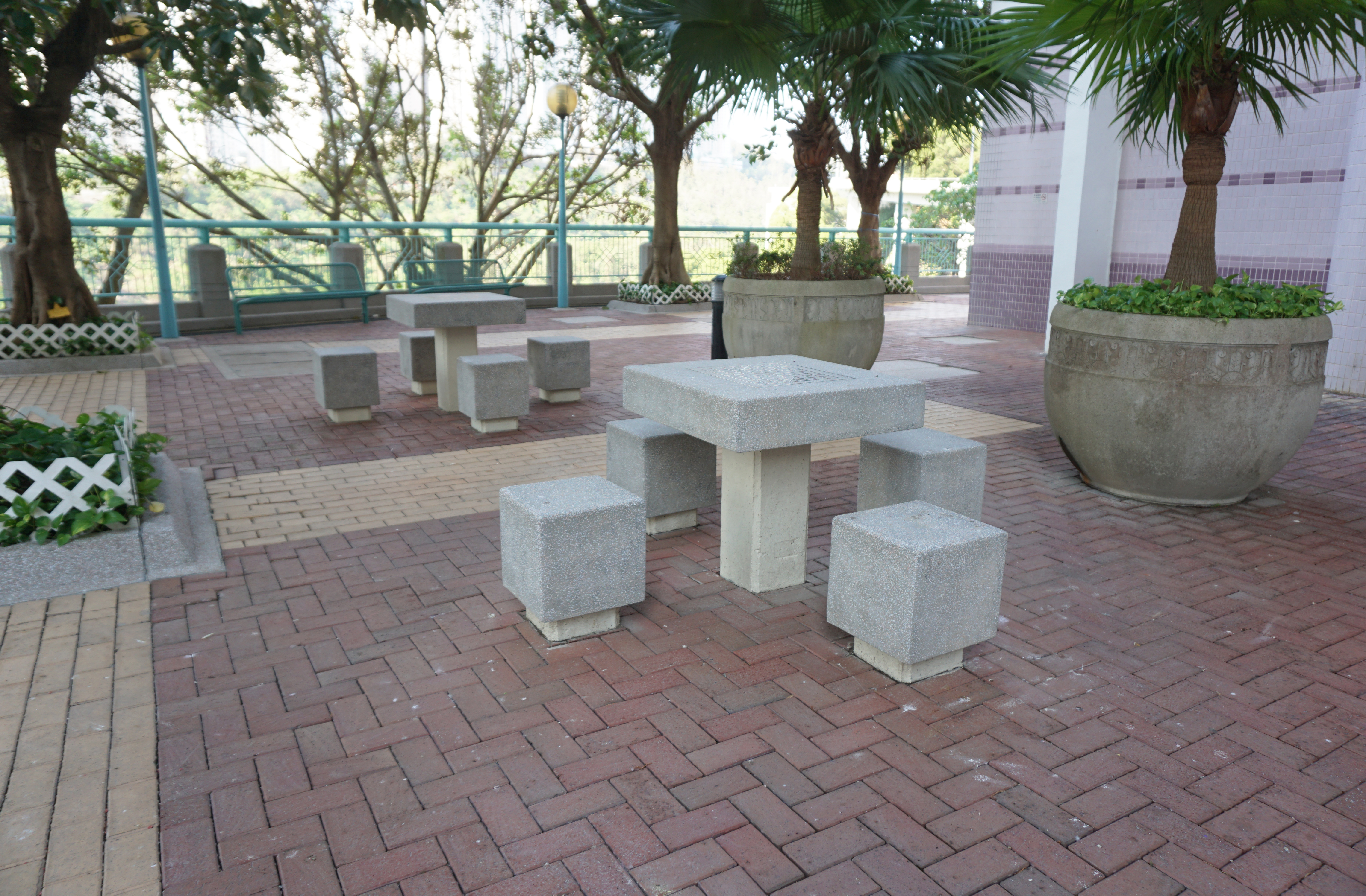 Hong Yat Court in Lam Tin, Hong Kong.